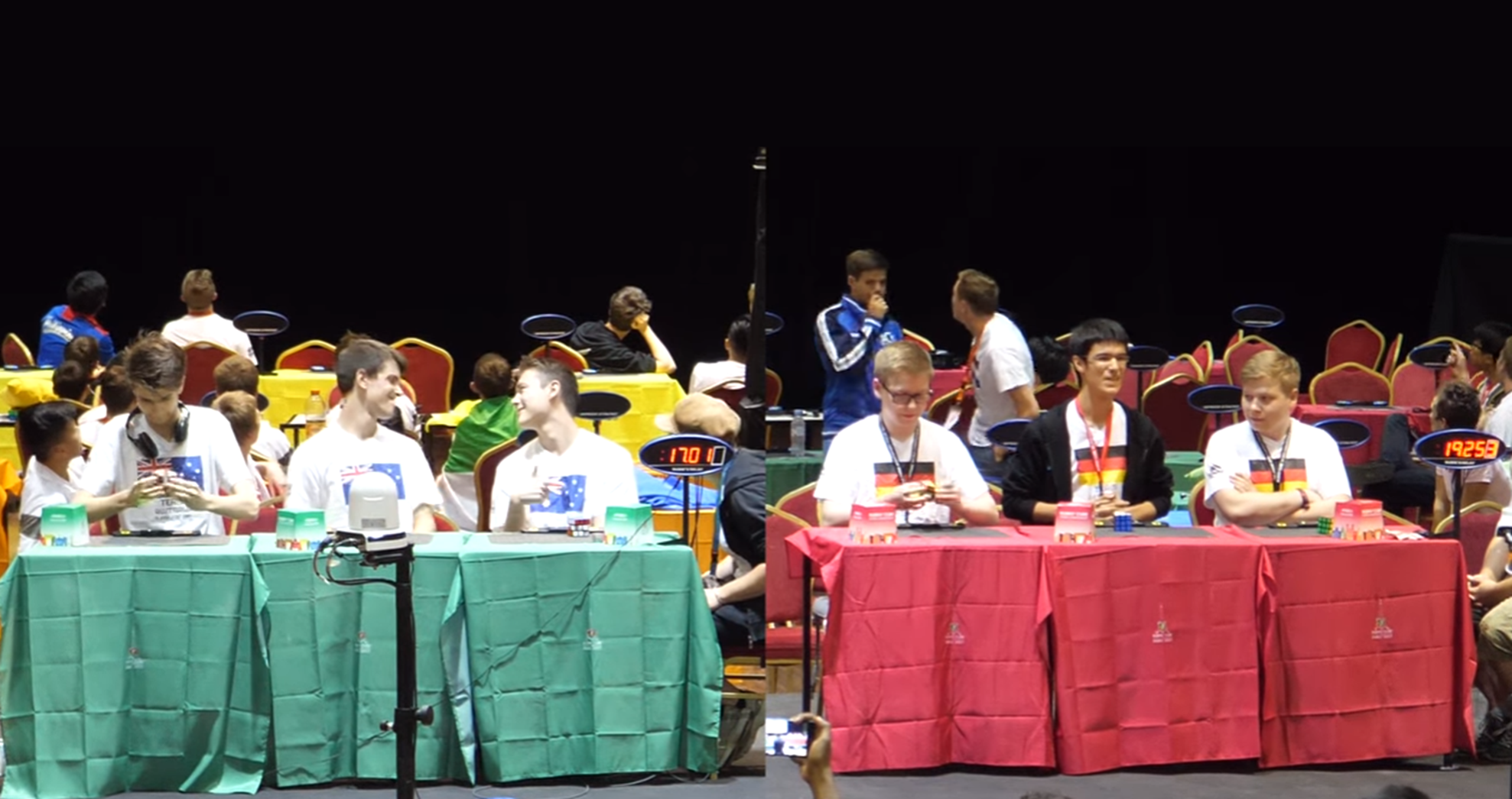 Australia vs Germany 1 during the Final round